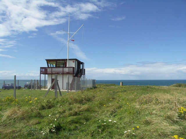 Coastguard Lookout Station, Portland This is up on the hill to the north of Portland Bill, near to the Old Higher Lighthouse. The station commands a 180 degree clear view of the sea.